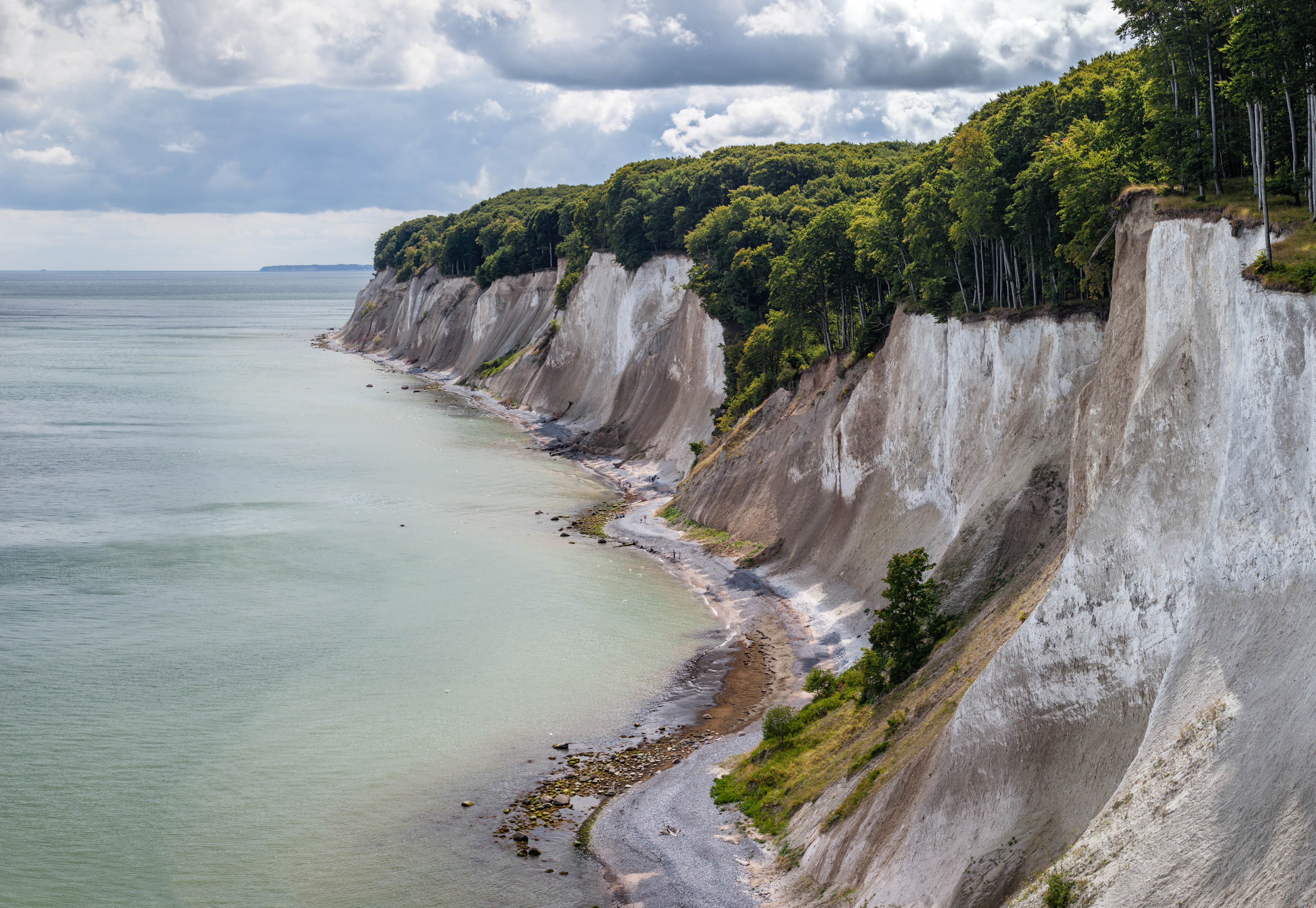 The Jasmund national park WDPA-ID: 32667, Rügen island in Mecklenburg-Vorpommern, Germany.